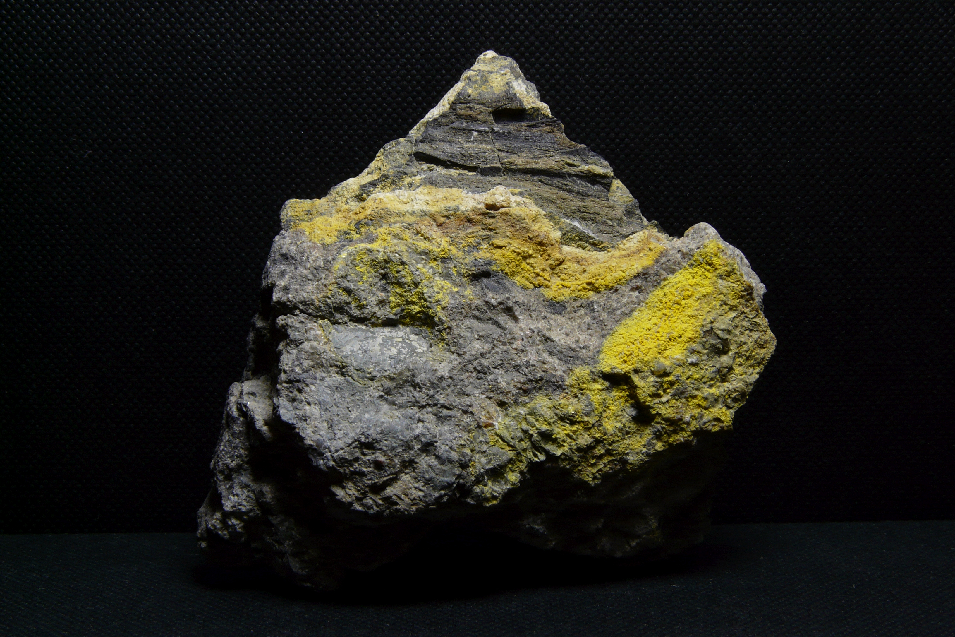 Uraninite Sample from Mi Vida Mine, Utah, USA, specimen size: 6x5 cm